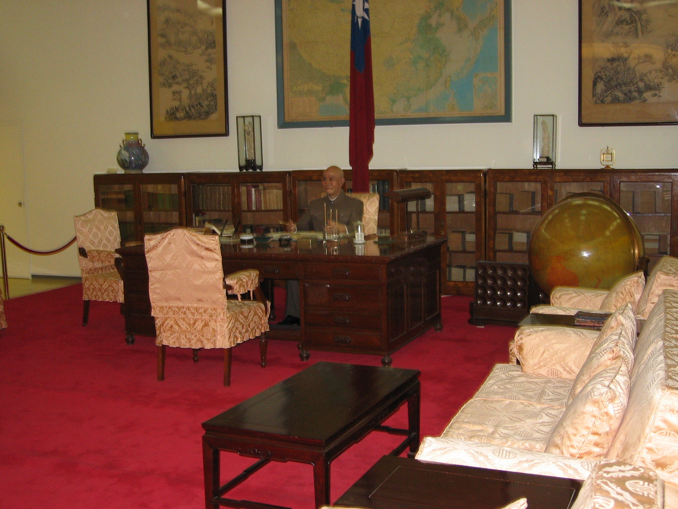 "The Memorial Office of President Chiang"(蔣中正紀念辦公室) is replica of Chiang Kai-shek's Presidential Office at the Chiang Kai-shek Memorial Hall. Photo taken on 2005.05.29 by User:Jiang in Taipei City, Republic of China.